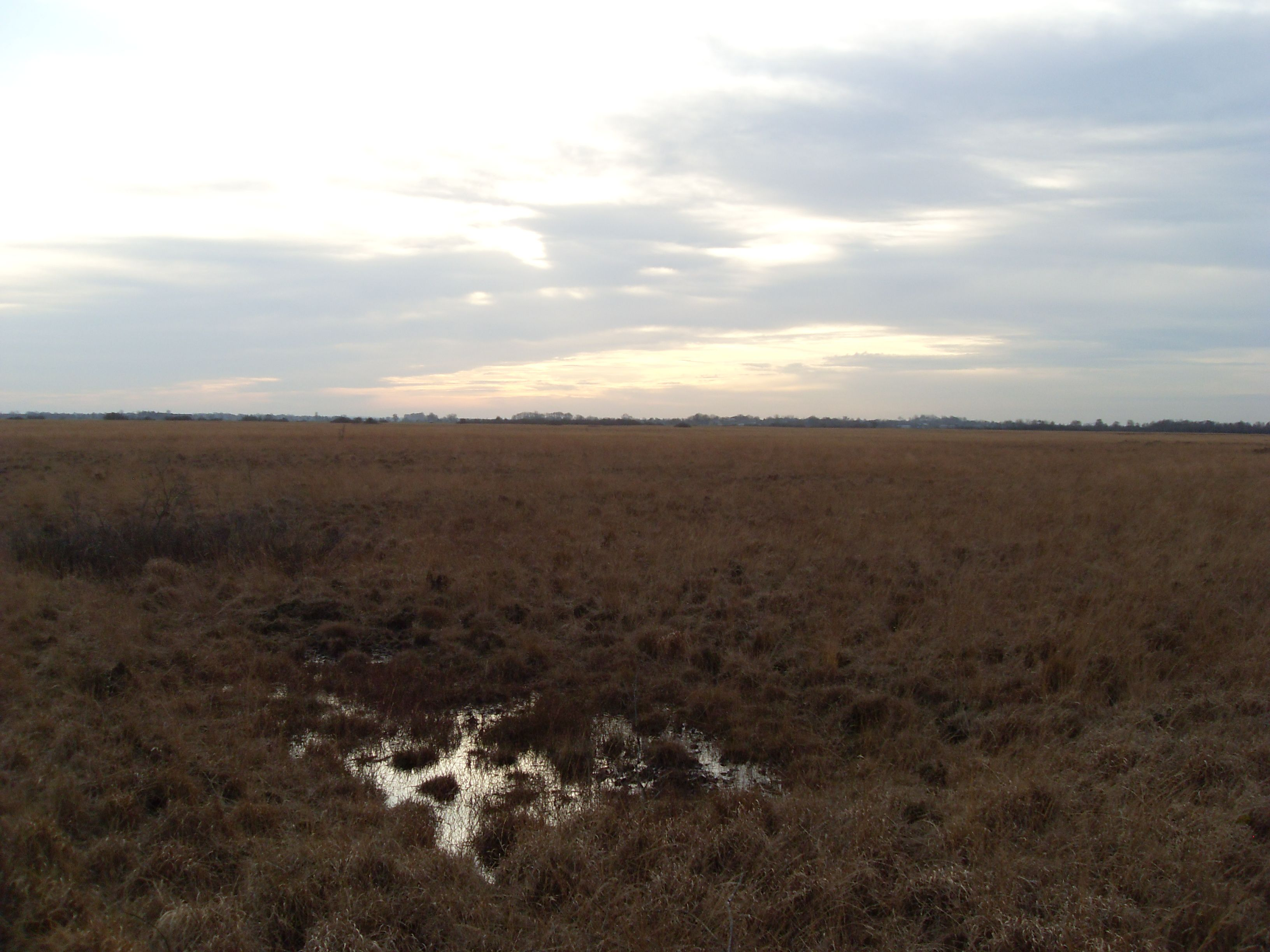 Nature reserve Tetenhusener Moor, Schleswig-Holstein, November 2009